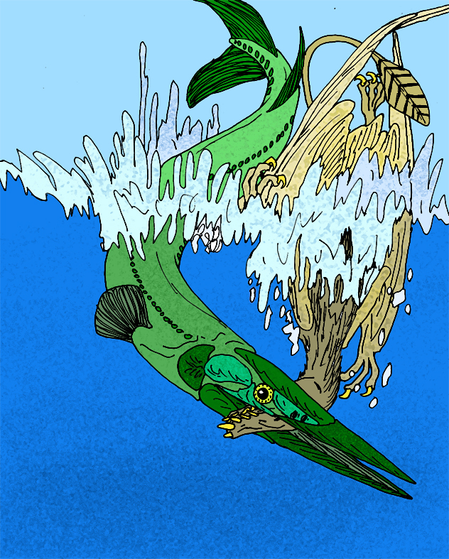 The Triassic fish Saurichthys seefeldensis attacking a hapless Preondactylus buffarinii. Based off of a fossil "pellet" that was once the afformentioned rhamphorhynchid, which was coughed up by a fish, presumed to be S. seefeldensis. (c) Stanton F. Fink